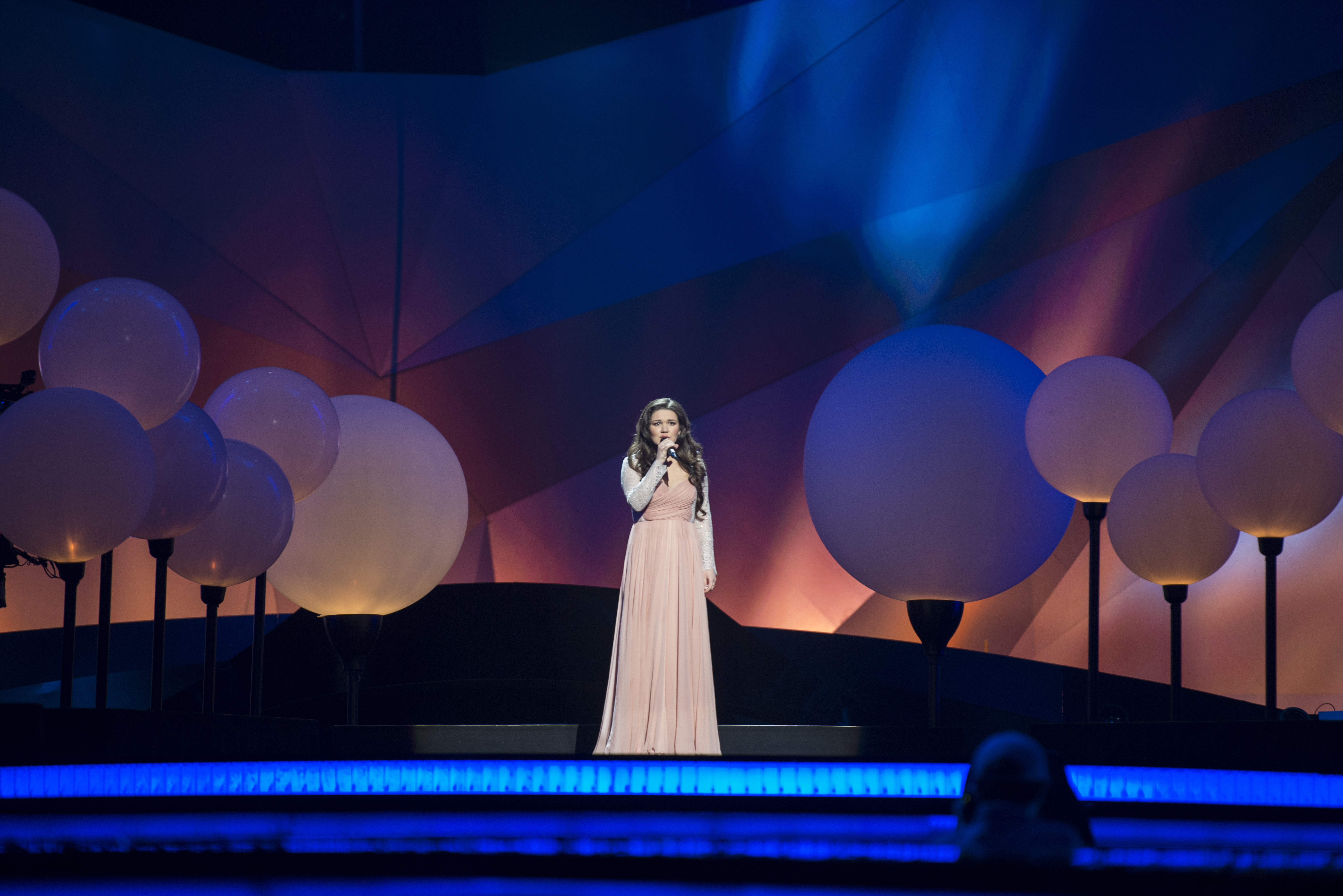 Dina Garipova representing Russia with the song "What If" during the first dress rehearsal of the first semi final of the Eurovision Song Contest 2013 in Malmö. (Help translate this text)